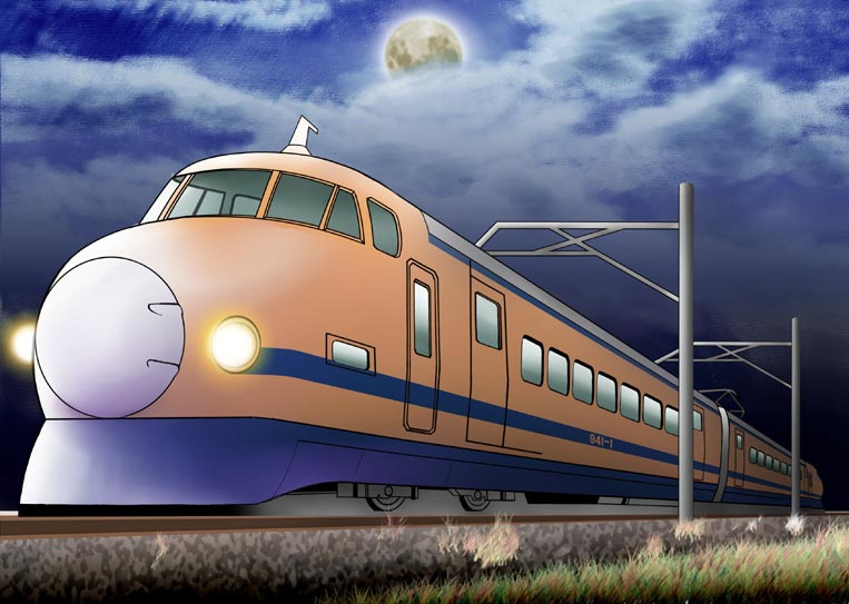 JNR SHINKANSEN TYPE941